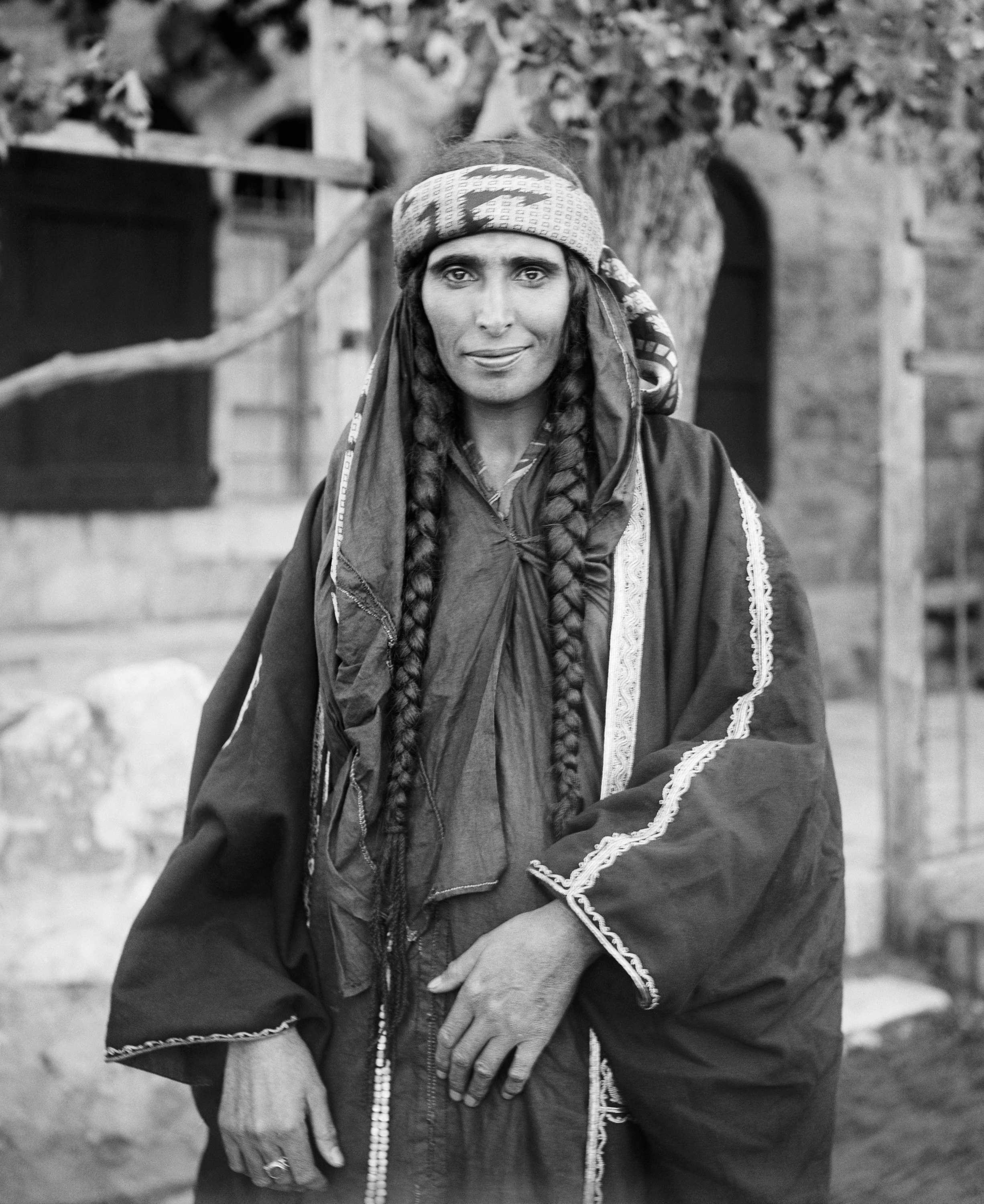 Bedouin woman in Jerusalem.